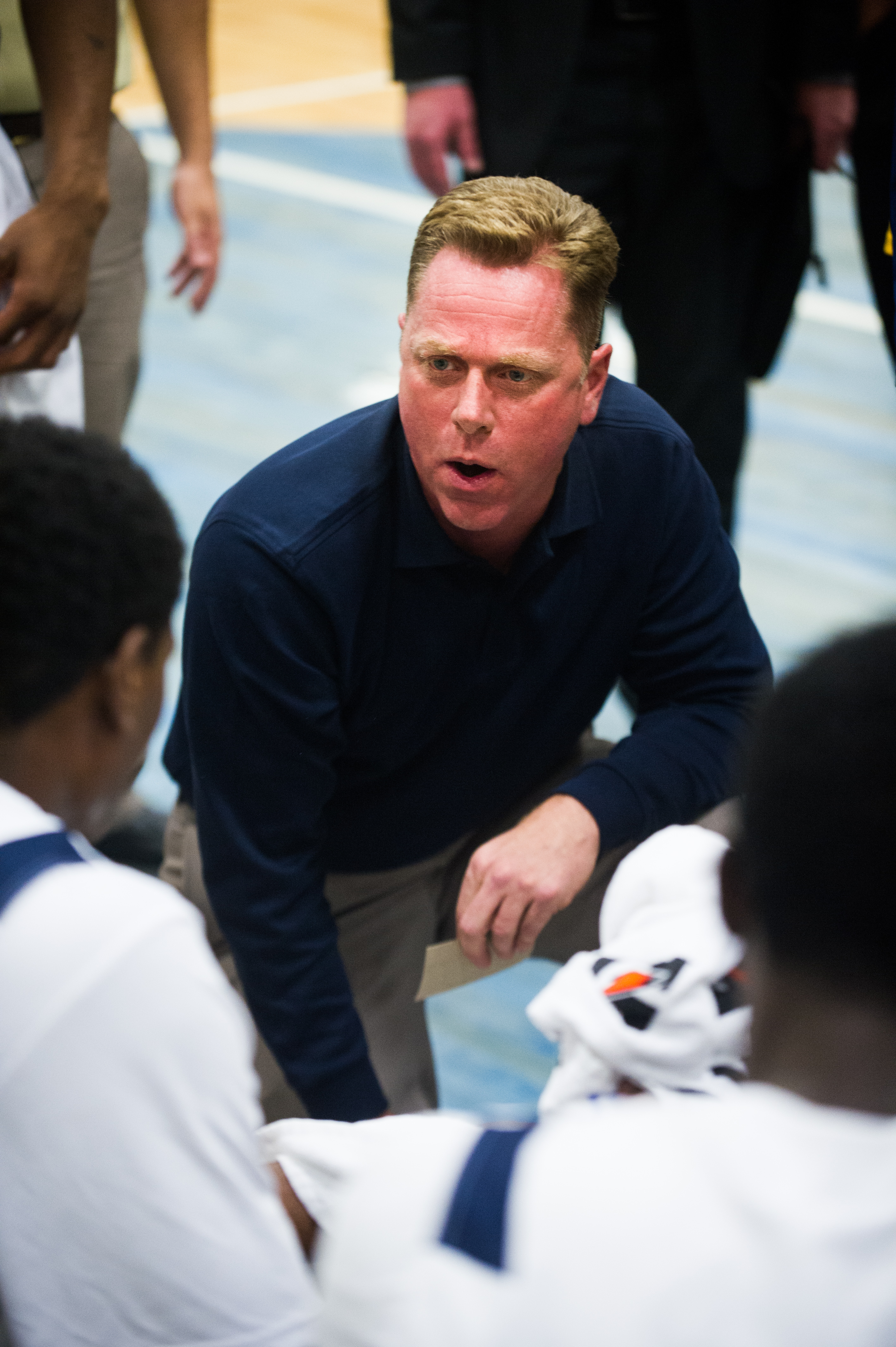 Athletics-MBSK vs SAU-7121.jpg 2013–14 Texas A&M–Commerce Lions men's basketball team